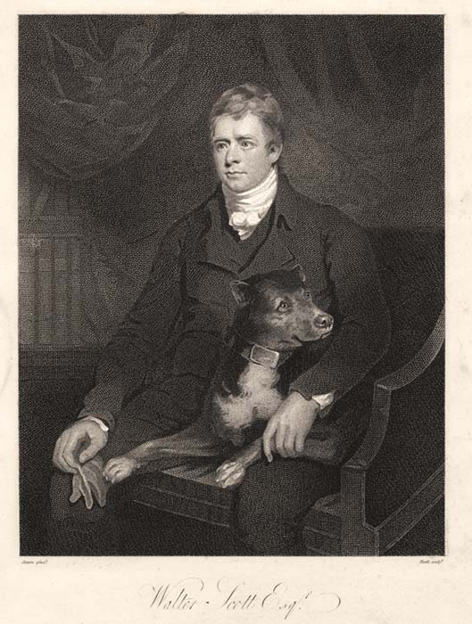 1810 engraving by James Heath of an 1805 James Saxon portrait of the poet and novelist Walter Scott, first published in 1810 as the frontispiece to Scott's The Lady of the Lake.